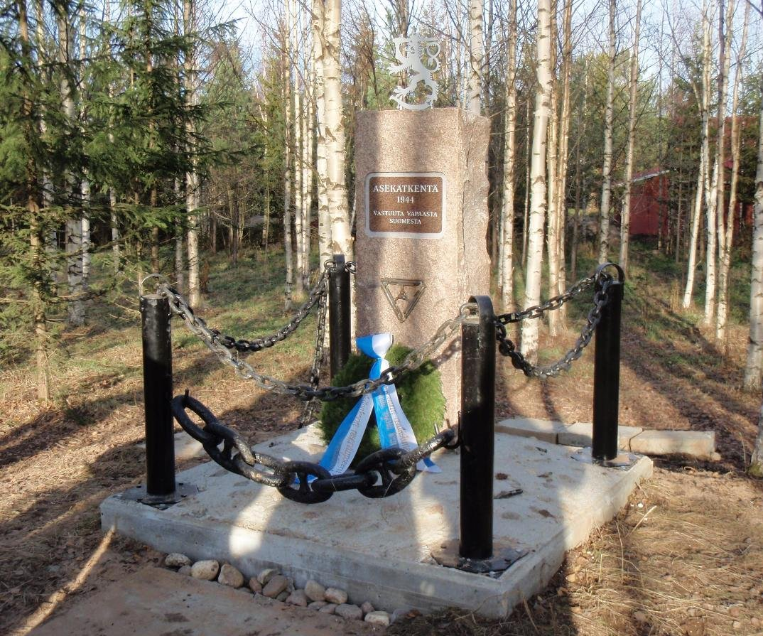 A memorial for the Weapons Cache Case in Muhos, Finland.